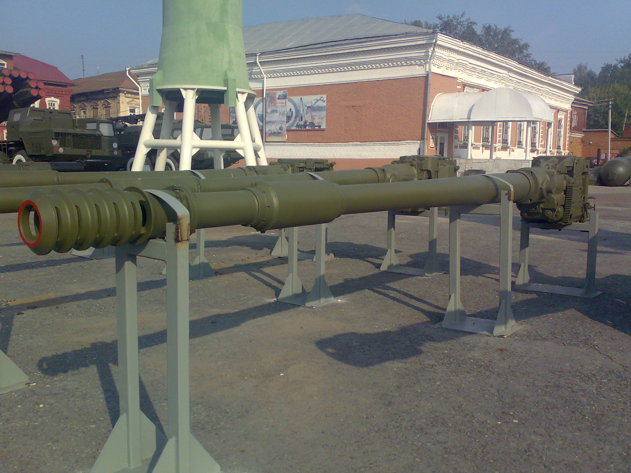 122-mm 2A17 heavy tank gun. Motovilikha Plants museum in Perm. Russia.